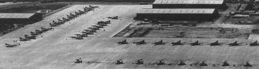 No less but 43 MiG-23MS and MiG-23BNs can be seen on this reconnaissance photograph of the Benina AB, near Benghazi, taken in 1981.